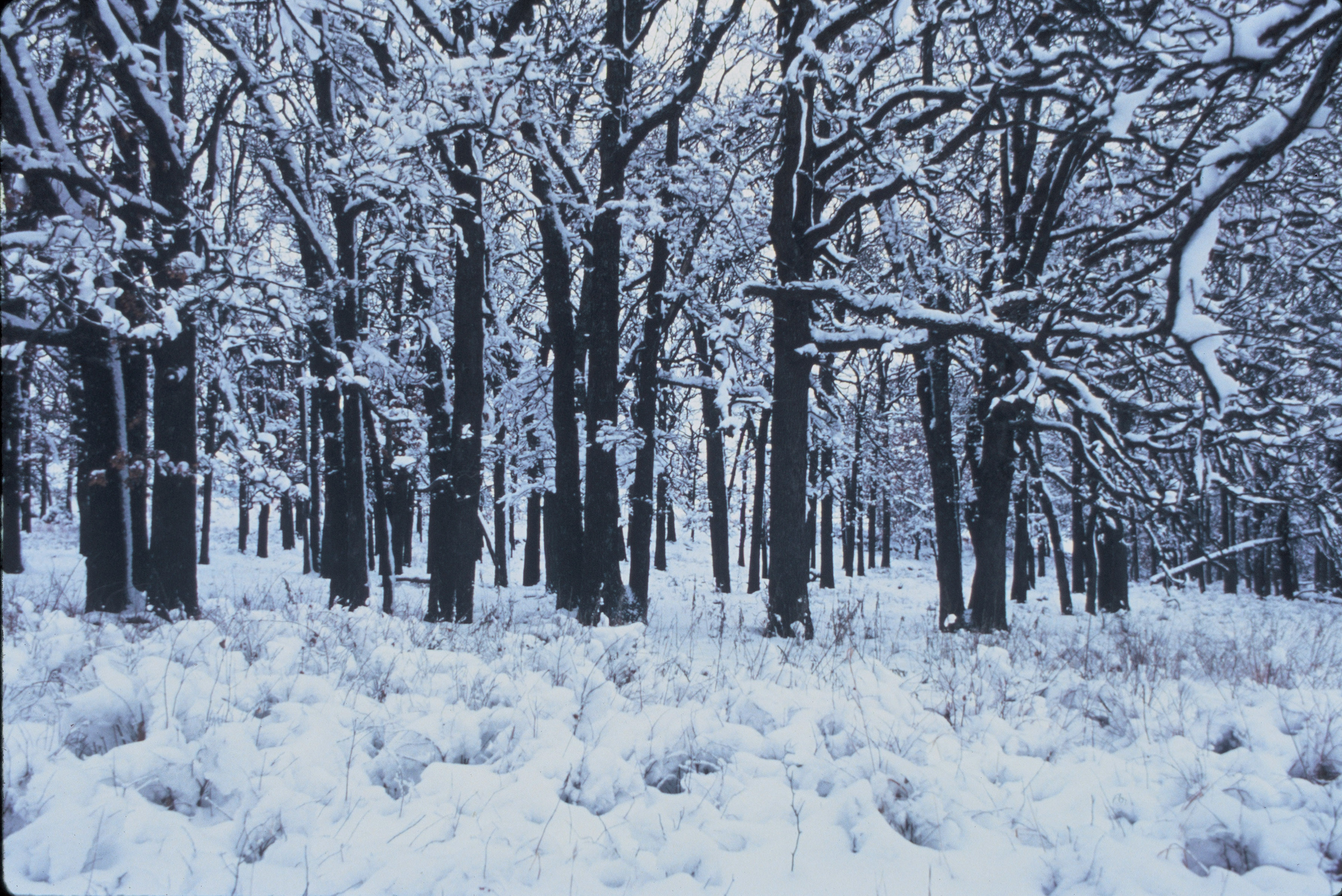 A temperate deciduous hardwood forest in the dormant season